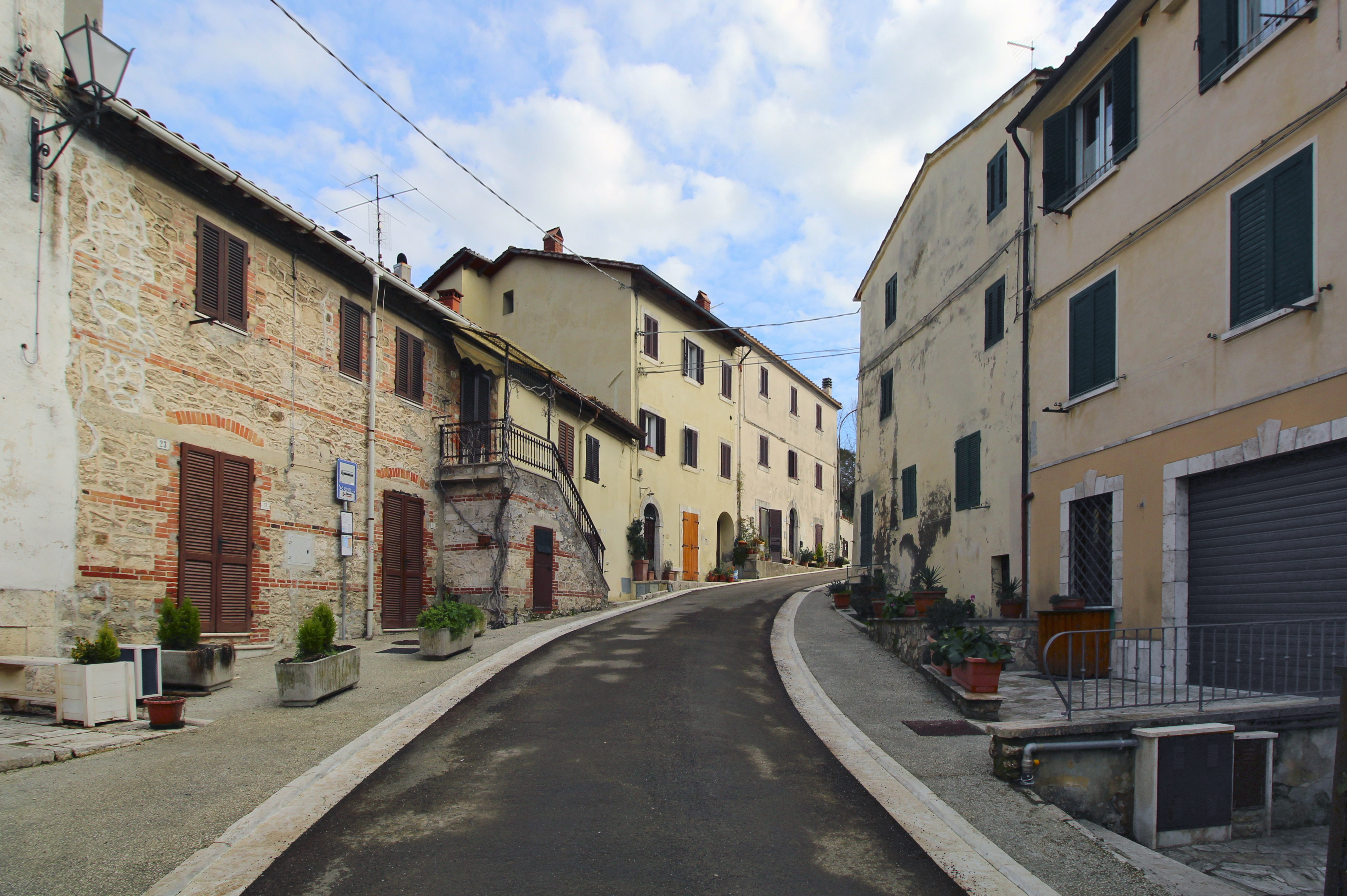 The Borgo of Bagni San Filippo, hamlet of Castiglione d'Orcia, Val d'Orcia, Province of Siena, Tuscany, Italy